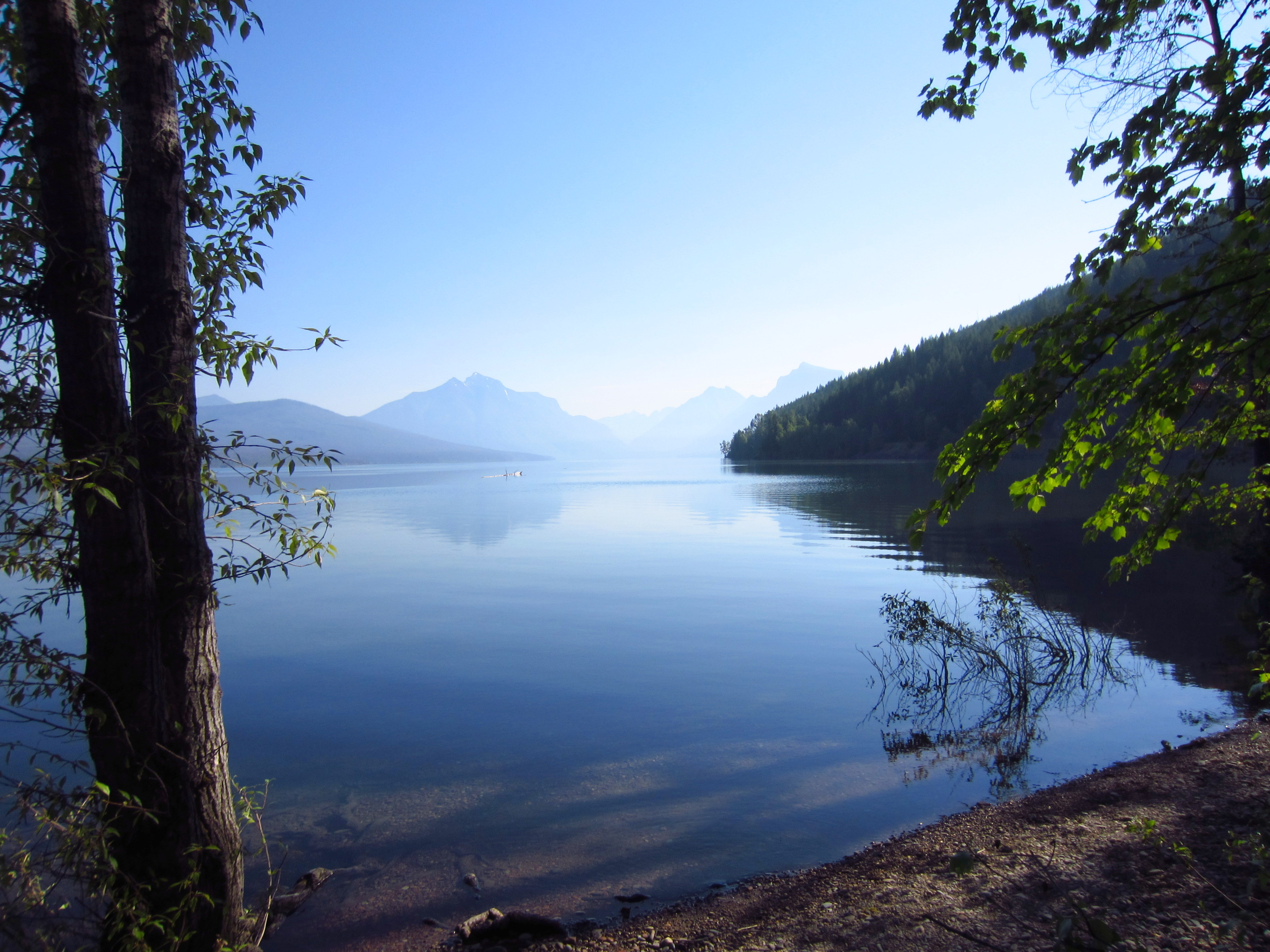 One of the many beautiful locations for your wedding at Glacier National Park. For more information regarding the wedding permit process go to or call (406) 888-7825 to speak with the Permit Specialist. For a detailed and navigable map of where this is located in the park, click the pink dot on the map to the right. Photo: Gabriel Morrow, NPS